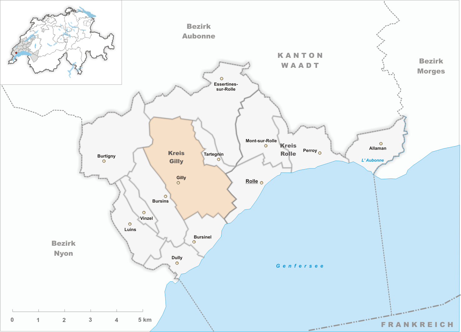 Municipality Gilly